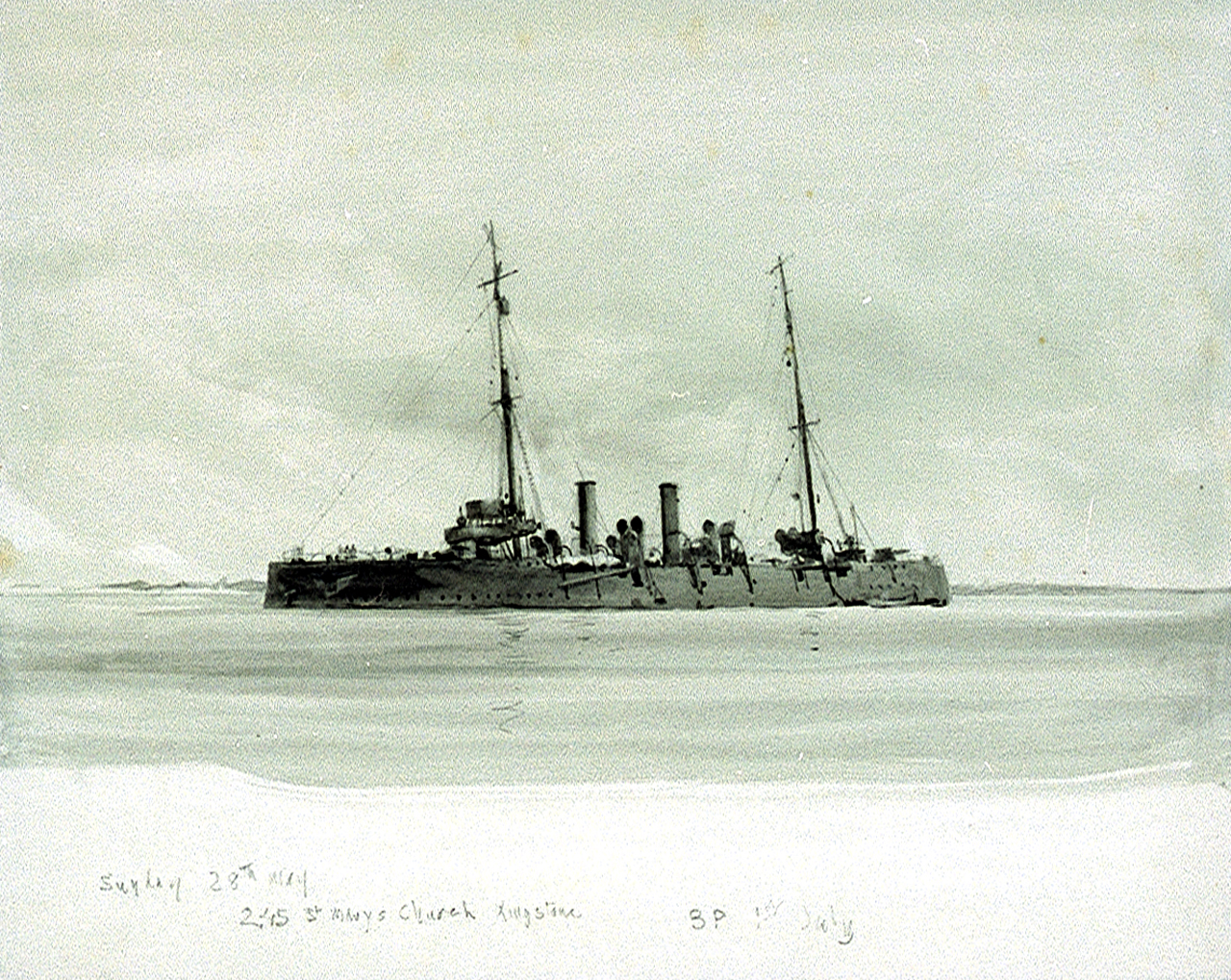 HMS 'Pegasus', 3rd-class protected cruiser, at Zanzibar, 19 September 1914 This drawing is an almost exact copy of a photograph of the 3rd-class protected cruiser 'Pegasus' (1897) anchored in the harbour at Zanzibar, Kenya, on 19 September 1914 for boiler cleaning and engine maintenance. She has awnings rigged amidships and at the base of the mainmast. The day after this photograph was taken the 'Pegasus' was caught powerless there, soon after dawn, by the German light cruiser 'Königsberg' (1905). Outranged and outgunned she was very badly damaged and started to sink. Attempts were made to beach her but she sank with just her masts above the water. Sources differ concerning the casualties among her 234 crew: figures of 31 dead and 55 wounded are the most common but 45 killed and 59 dead are also quoted. Her eight 4-inch guns were salvaged and used in the land campaign against German East Africa. The wreck was demolished by explosives in 1955-56 and the shattered remains still lie in a corner of Zanzibar harbour. The inscription by Wyllie along the bottom appears to be a diary note not relevant to the drawing: 'Sunday 28th May / 2.45 St Marys Church Kingstone ....BP 1st July'.